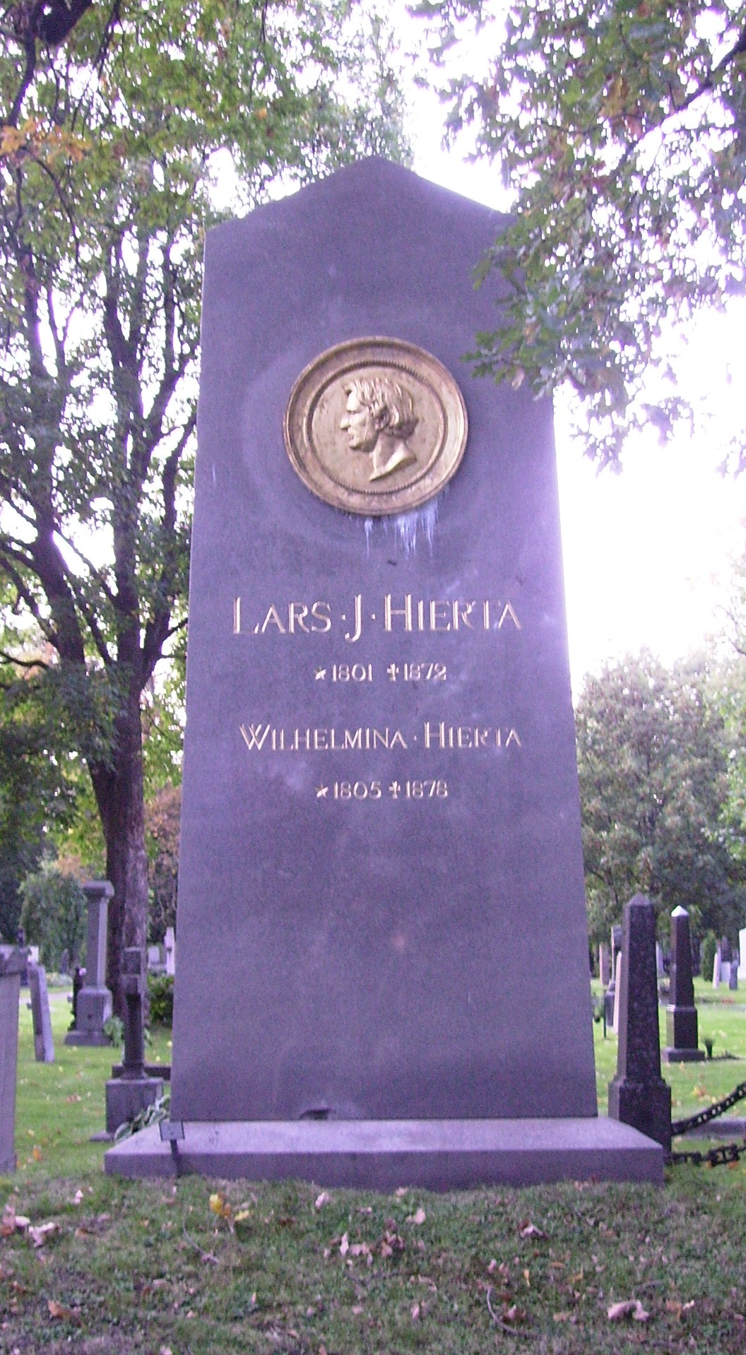 Picture of Lars Johan Hierta's grave at Norra begravningsplatsen in Stockholm